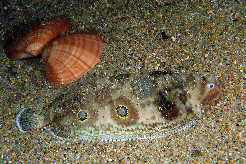 Microchirus ocellatus (with a Callista chione shell) photographed near Giglio Island (Tuscany, Italy). Depth: 12 m. Photo by Stefano Guerrieri.